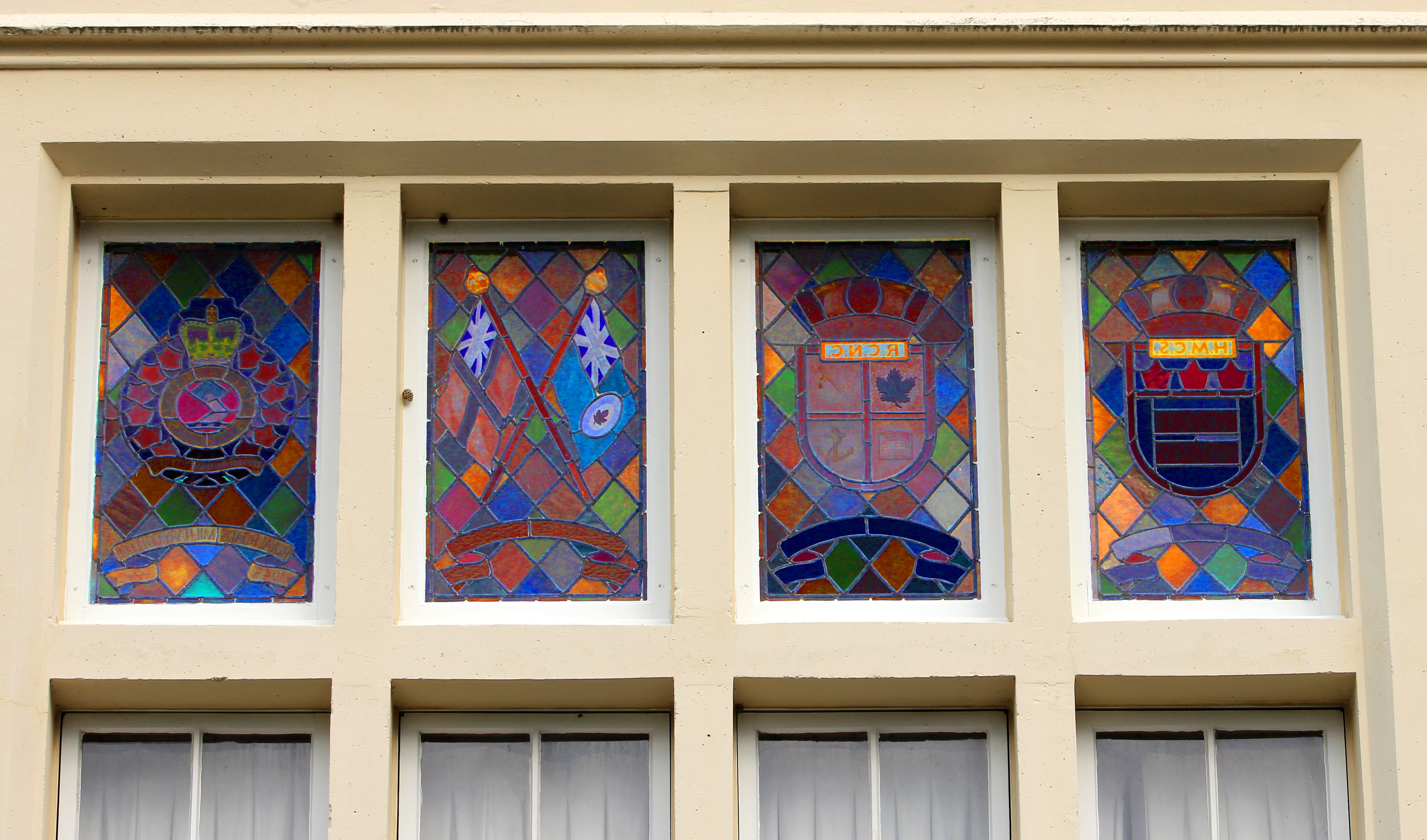 close up of stained glass windows in grant block at royal roads by sam gusway